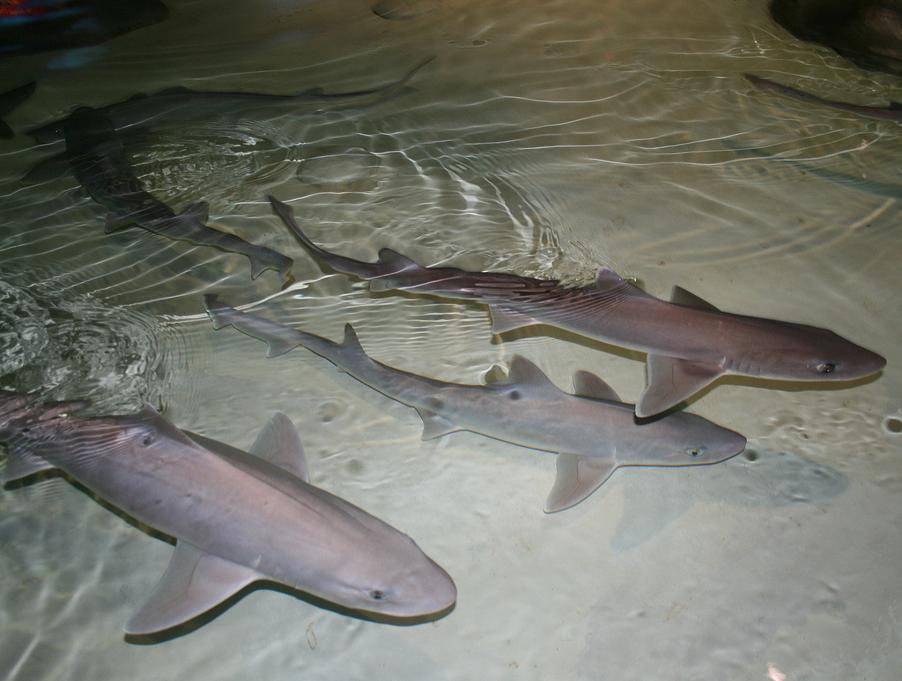 Smooth dogfish (Mustelus canis) at the Indianapolis Zoo